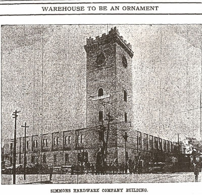 Battery-Building-during construction 1906 from the Sioux City Journal, September 16, 1906